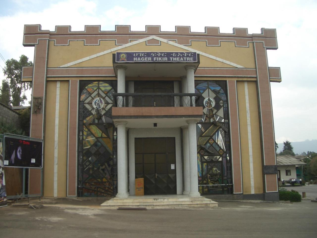 Hager Fikir Theatre, Addis Ababa, Ethiopia (German: Hager Fikir Theatre, Addis Abeba, Äthiopien)